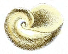 drawing of umbilical view of a shell of Helicarion mastersi